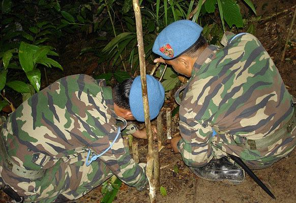 The PASKAU commando operatives just hang out the tent during the survival training session in the forest. (RELEASED)